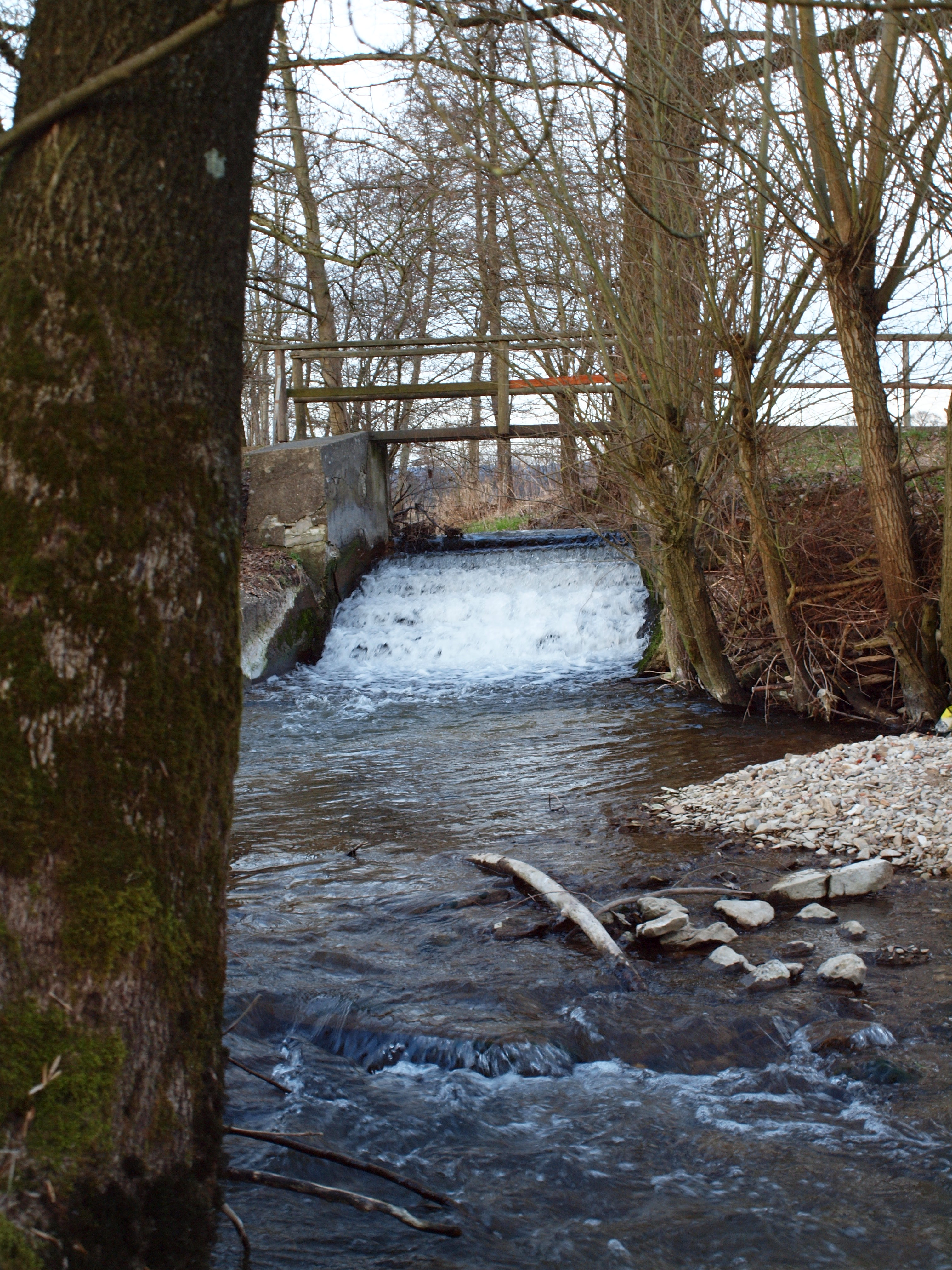 The Strothe beside the Ochsensee in Schlangen